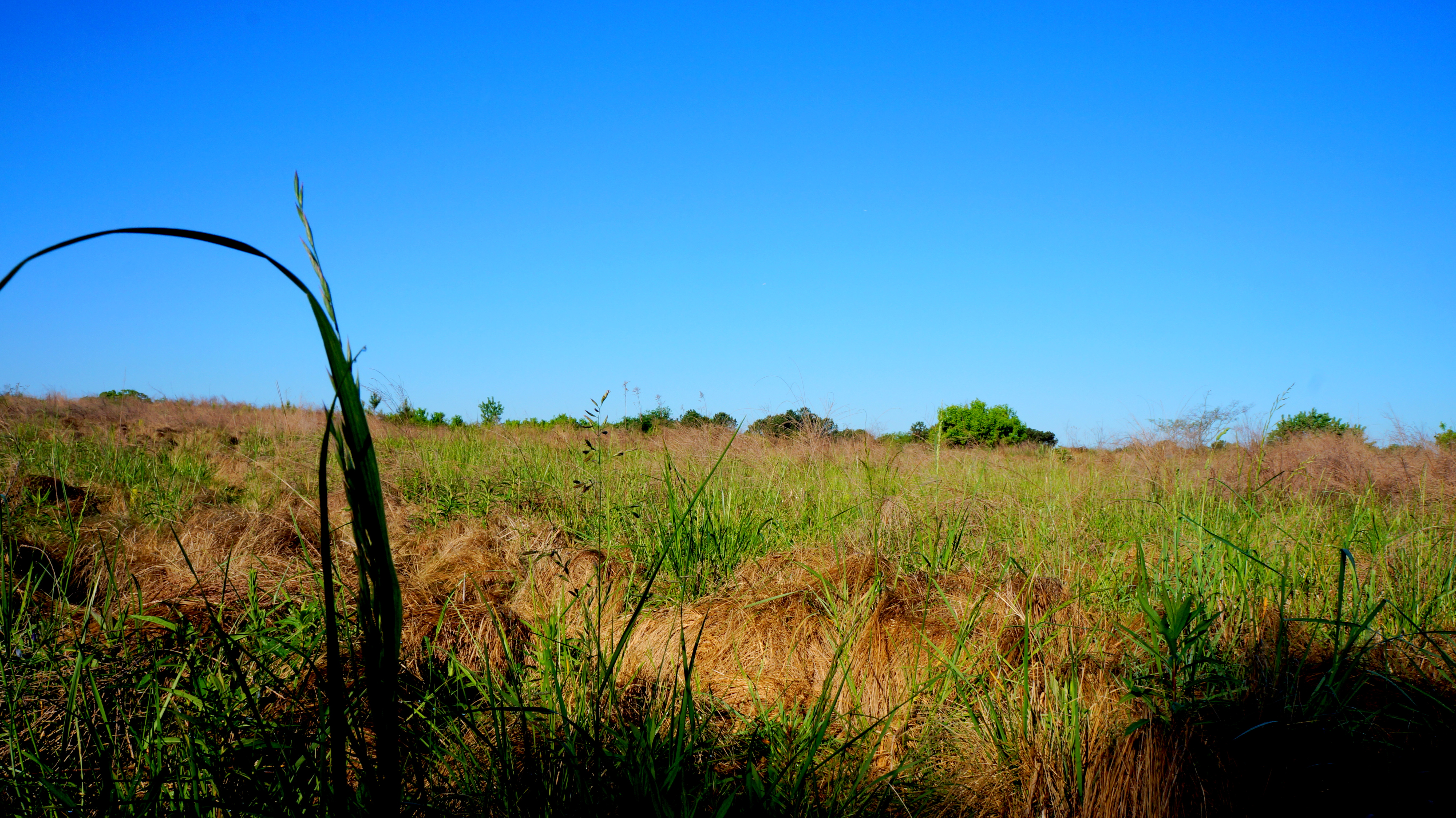 The large field north of the quarry